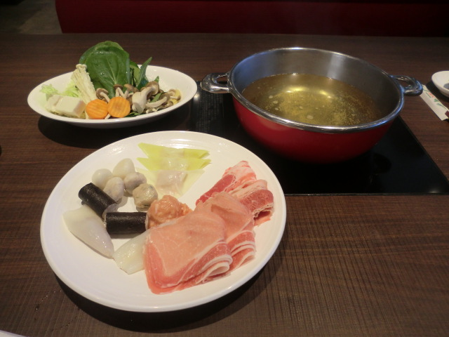 Thai Suki (Thai variant of hot pot) of MK Restaurant in Japan.